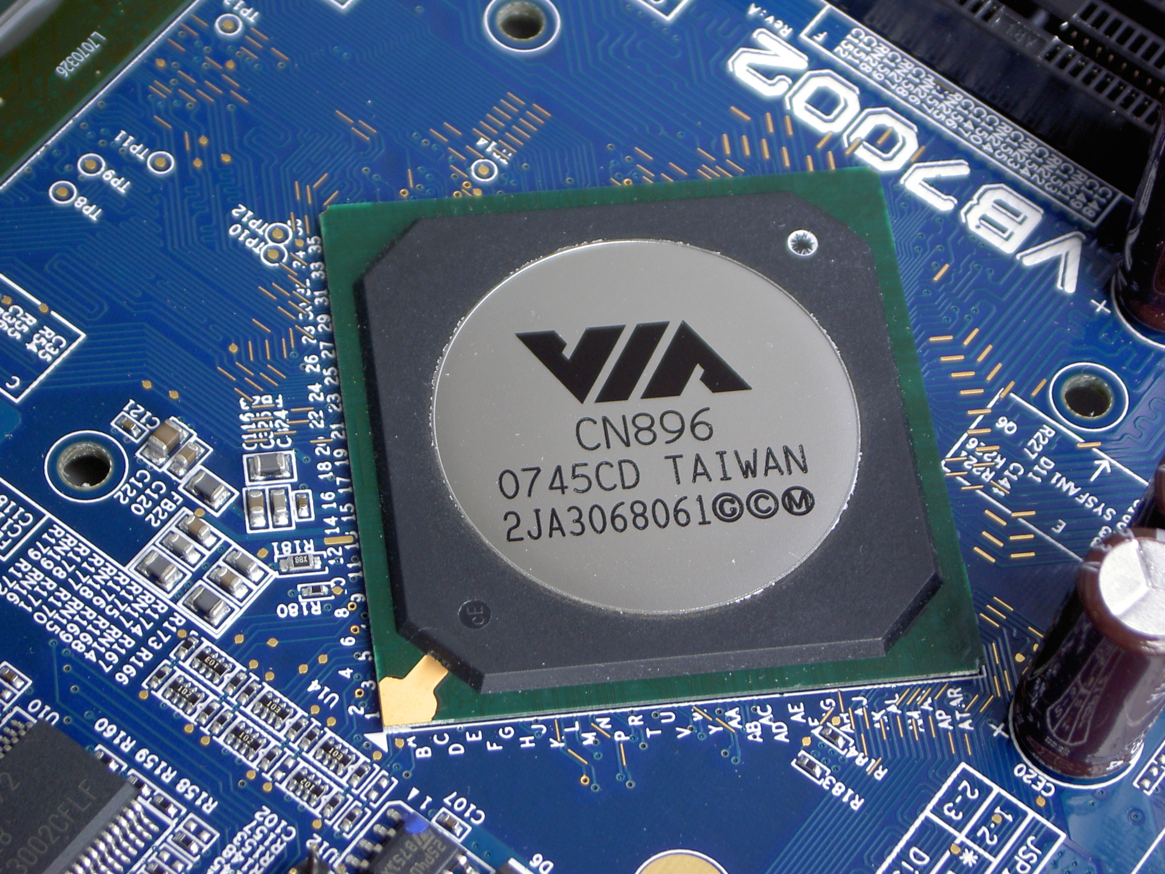 VIA CN896 NorthBridge (Chrome9HC IGP)